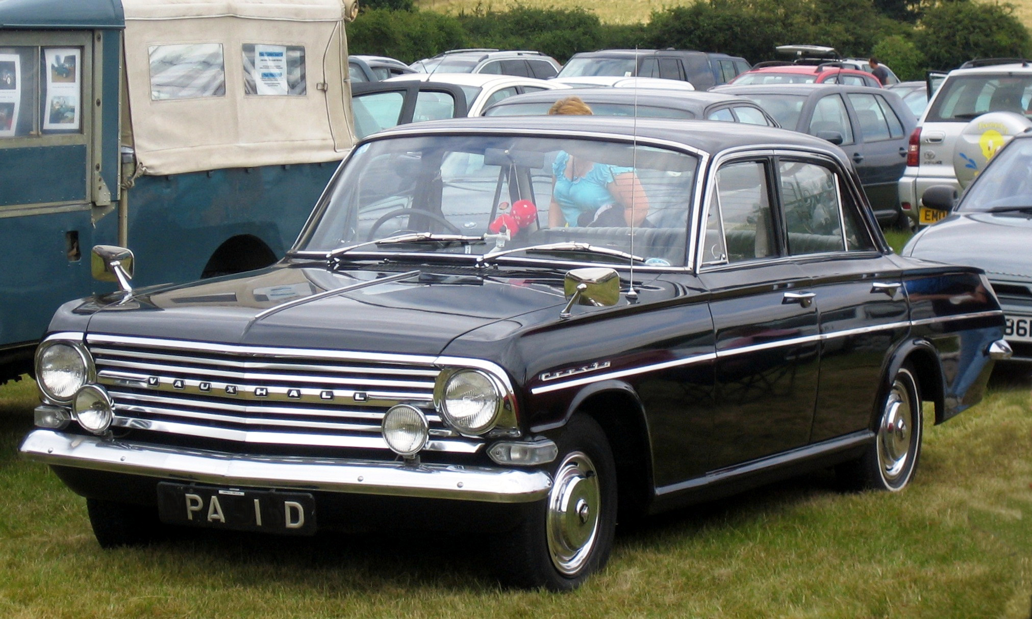 Vauxhall Cresta PB registered 1966 which was the year when, in october, the PB was replaced by the "coke-bottle" line PC.